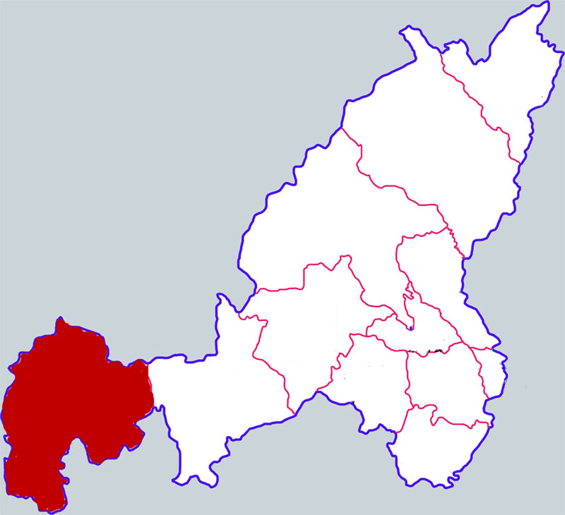 Location of Dingbian county in Yulin city, Shaanxi province, China